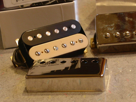 Have you seen a sexier pickup? I didn't think so!